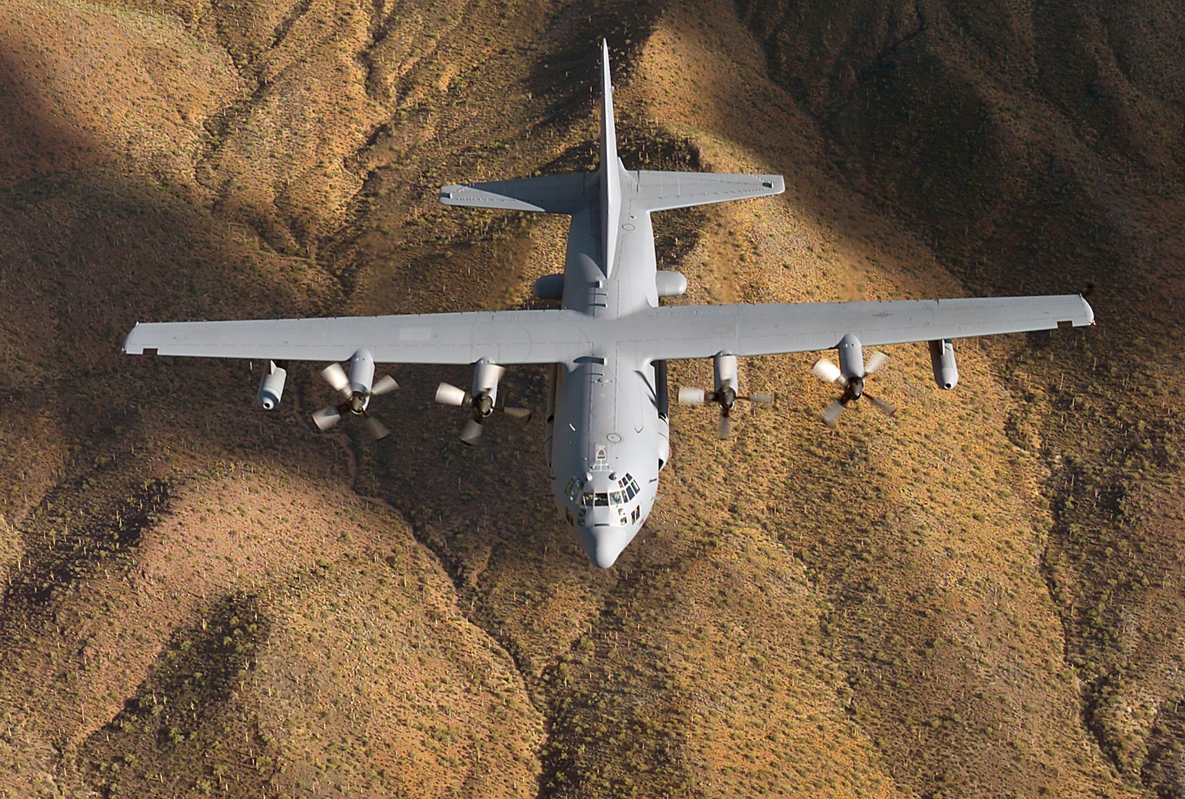 An EC-130H Compass Call flies a training mission over Lake Mead, Ariz. Compass Call is the designation for a modified version of the C-130 Hercules aircraft configured to perform tactical command, control and communications countermeasures. Specifically, the modified aircraft uses noise jamming to prevent communication or degrade the transfer of information essential to command and control of weapon systems and other resources. Modifications to the aircraft include an electronic countermeasures system, air refueling capability and associated navigation and communications systems.